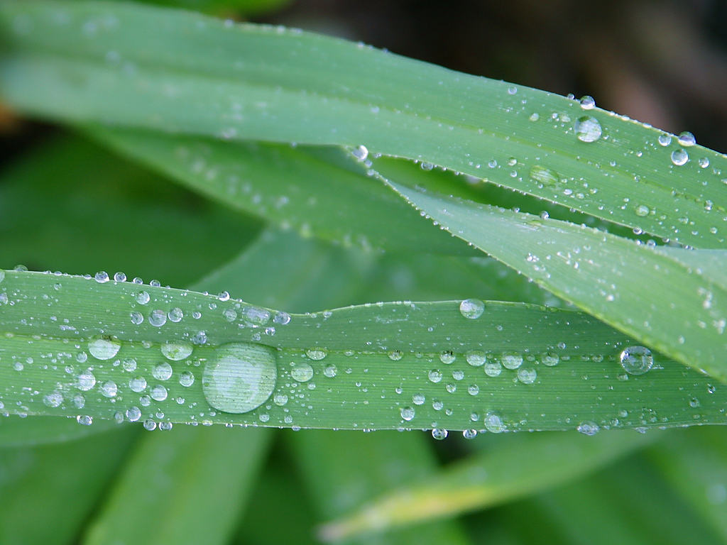 Dew on grass